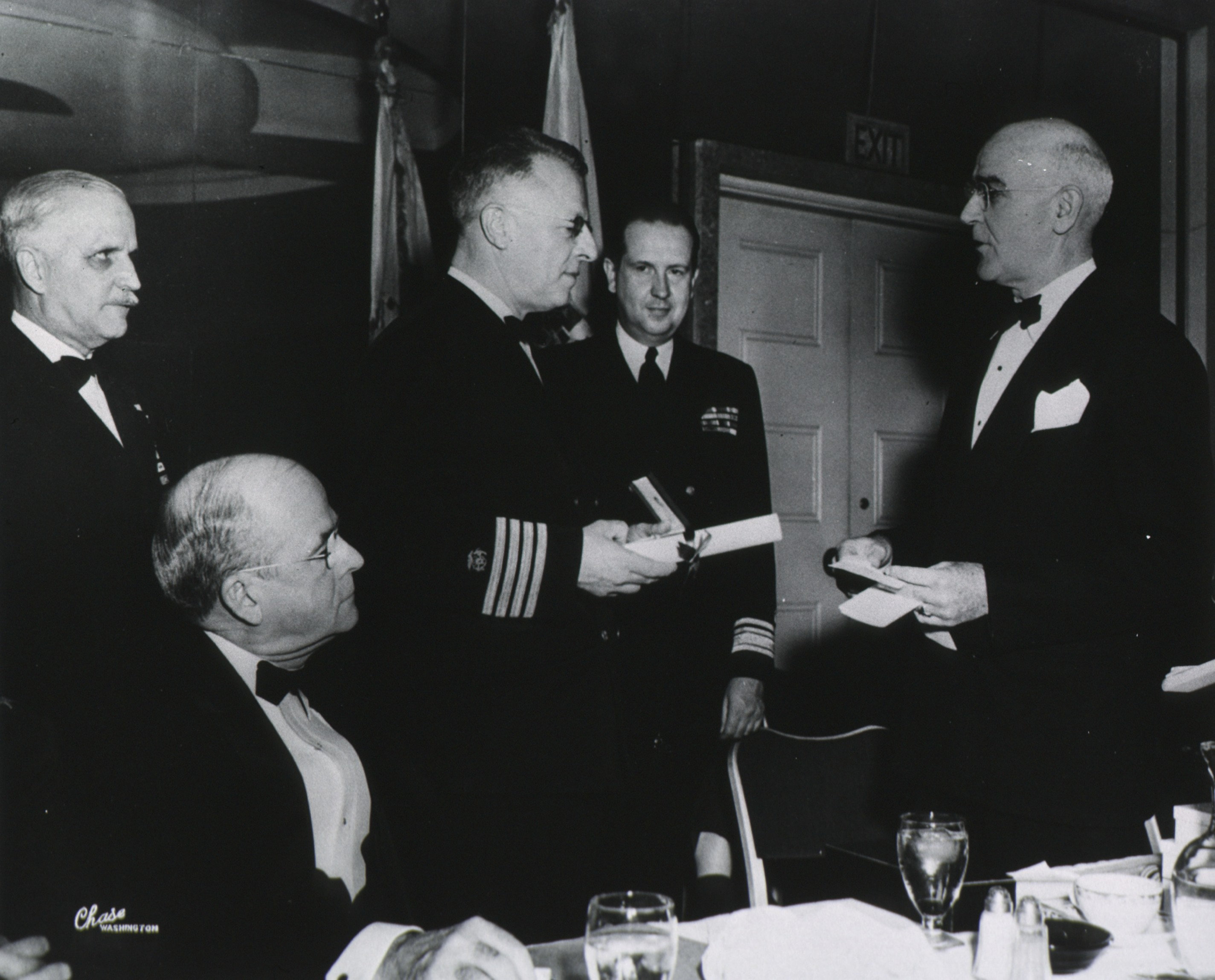 Dr. H. Trendley Dean (center) receives the Gorgas Award for 1949.